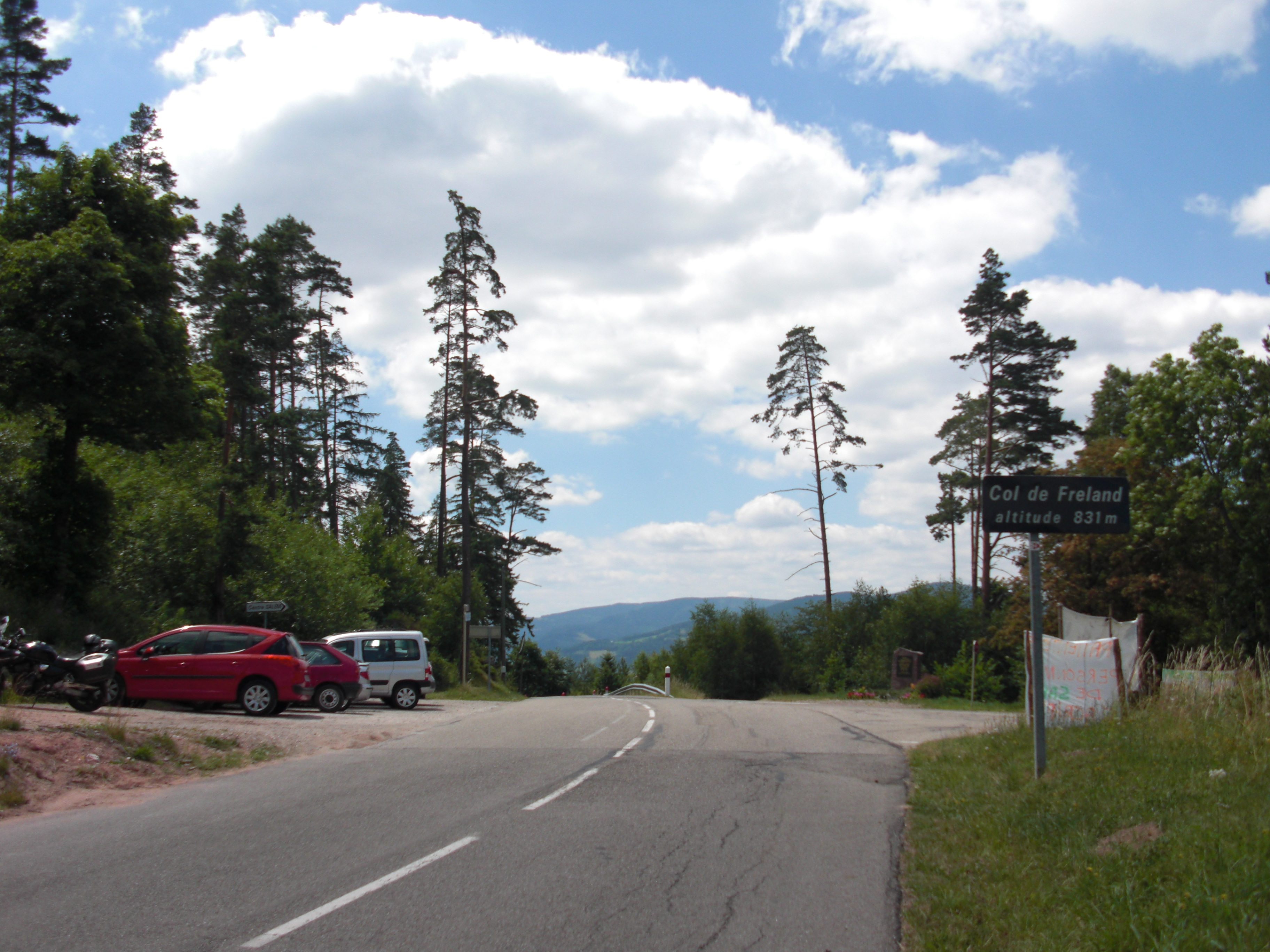 Col de Freland: Pass summit